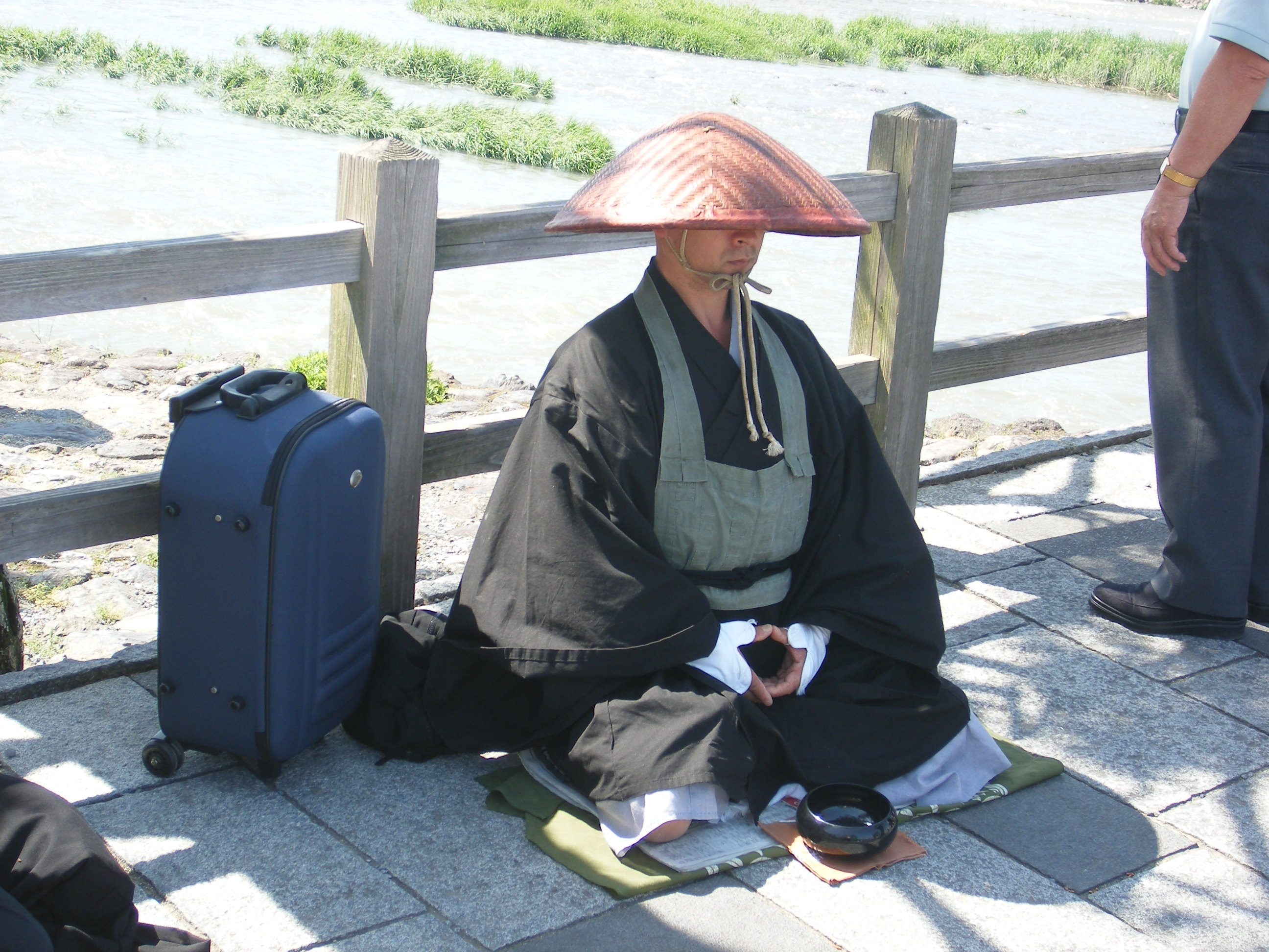 Yuzen, a buddhist monk from the Sōtō Zen sect begging at Oigawa, Kyoto. Begging is regarded as one of the duty during training in some sect.